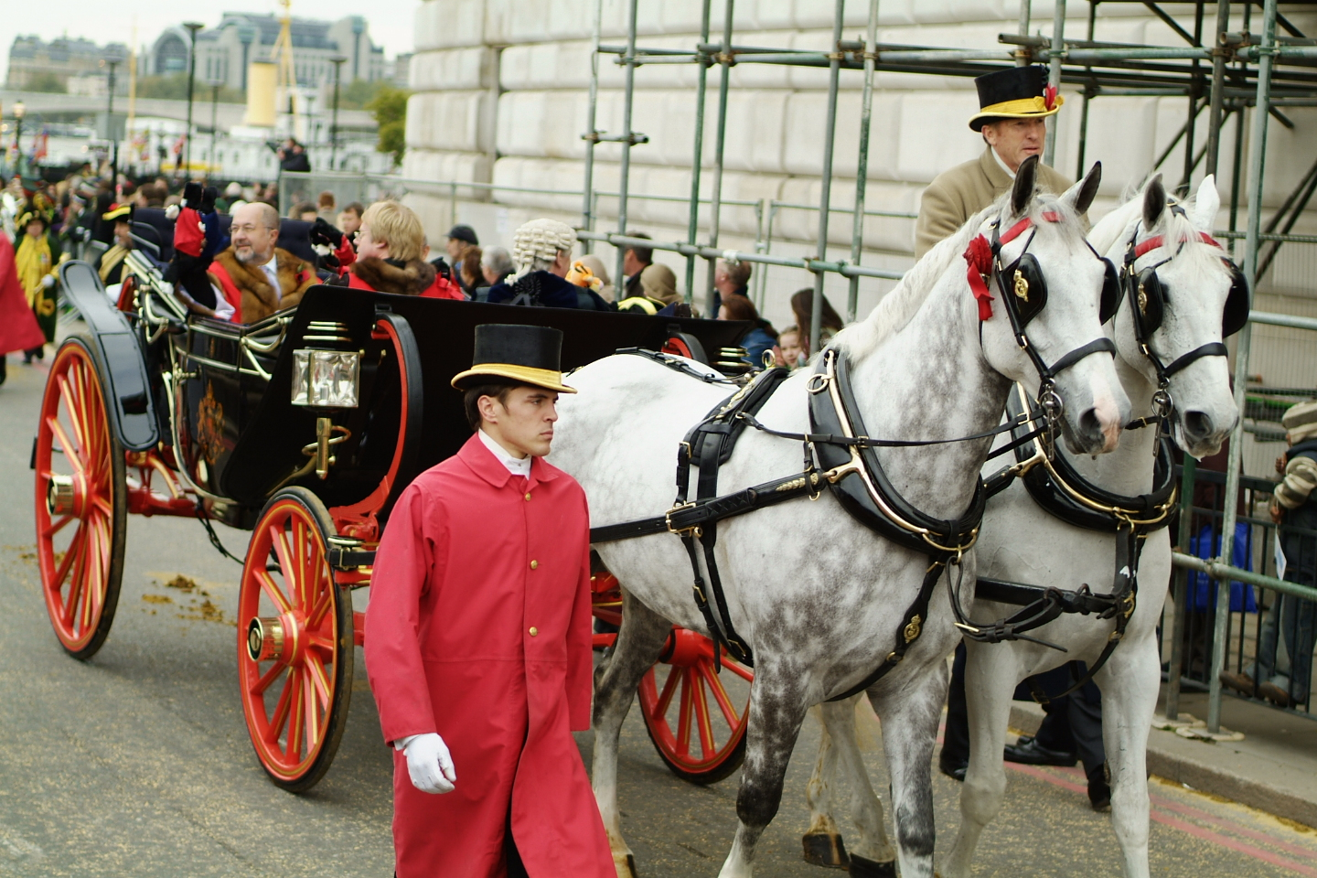 Lord Mayor's Show, London 2006